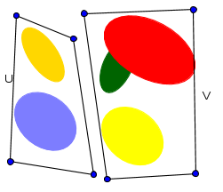 Each ellipse is a connected set, but the union is not connected, since it can be partitioned to two disjoint open sets U and V.